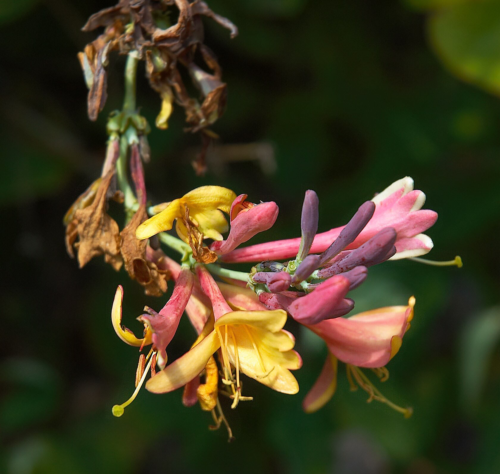 Lonicera x heckrottii 'Gold Flame'. This photo has been taken in Belgium.